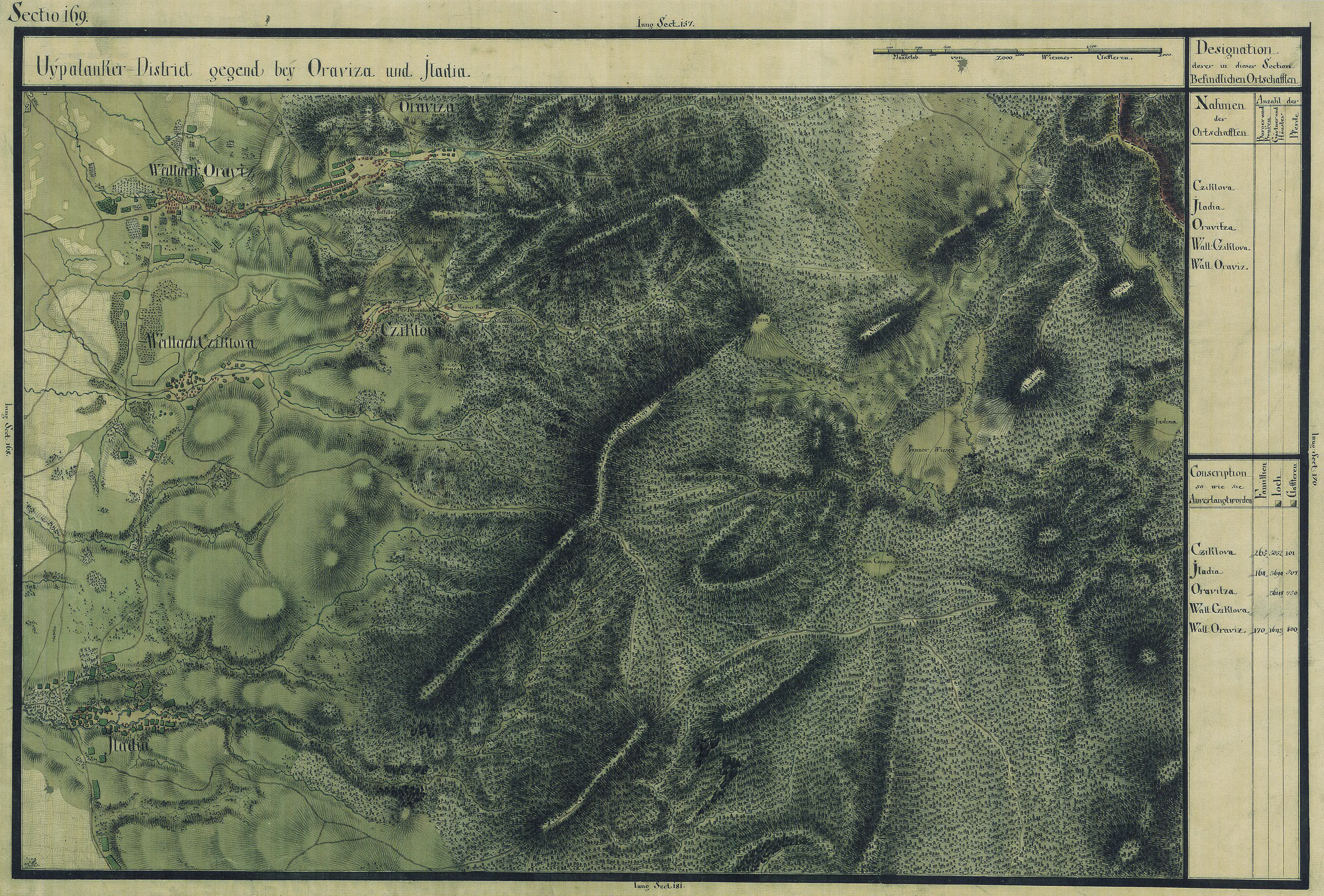 The Banat region in the cadastral maps: Josephinische Landesaufnahme, 1769-72. Josephinische Landaufnahme pg169